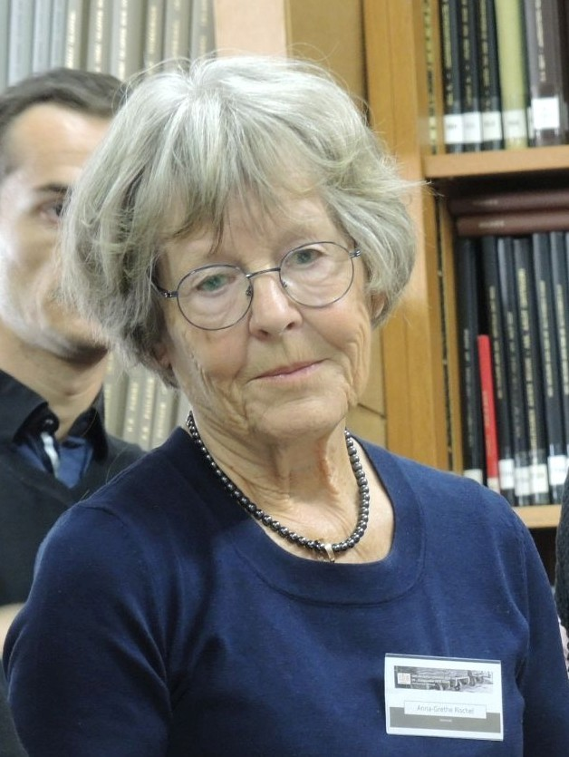 Anna-Grethe Rischel at the 34th IPH Congress in Ghent